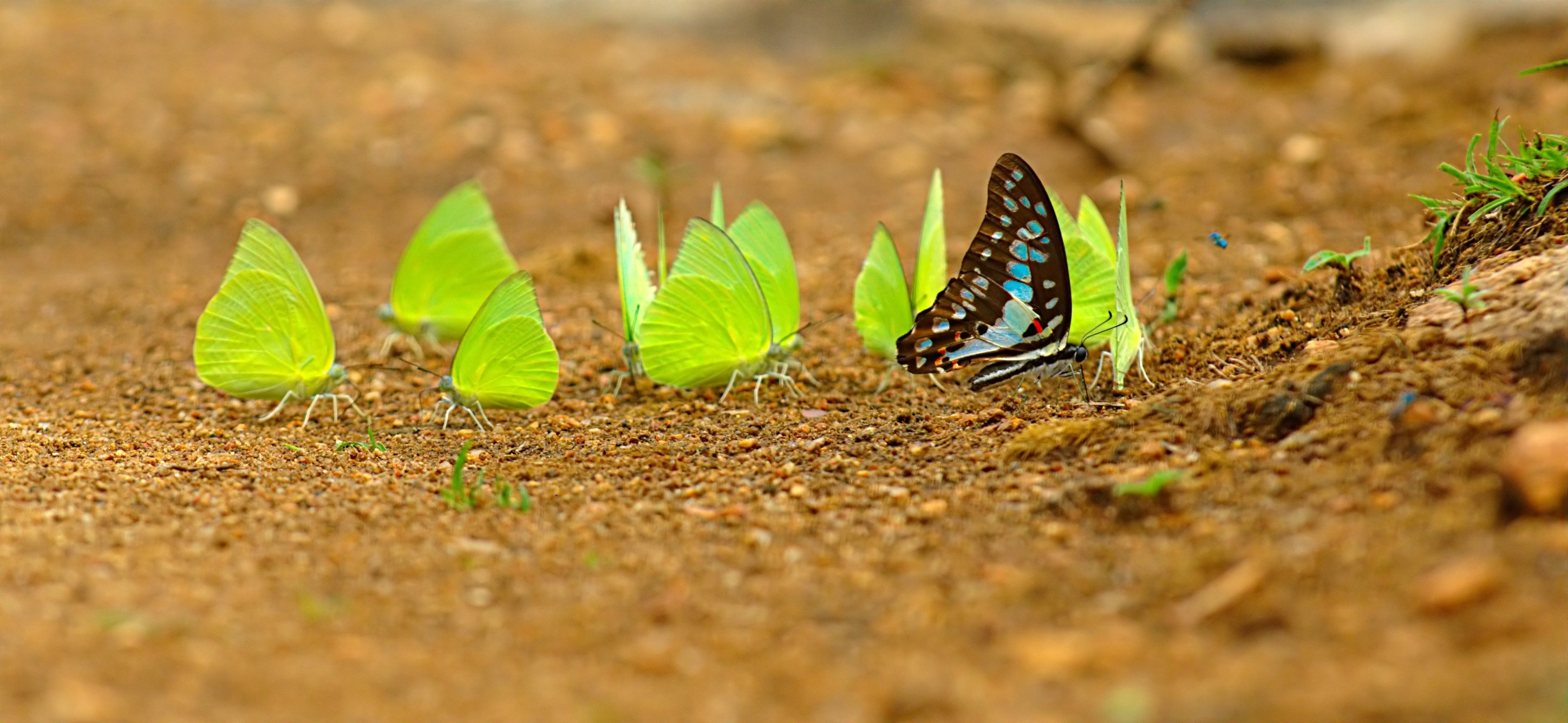 The yellow butterflies are Common Emigrants, also known as Lemon Emigrants (Catopsilia pomona). This is a medium sized pierid butterfly found in Asia and parts of Australia. The species gets its name from its habit of migration. Some early authors considered them as two distinct species, Catopsilia crocale and Catopsilia pomona. The black and blue butterfly is a Common Jay (Graphium doson). This is a black, tropical papilionid butterfly with pale blue semi-transparent central wing bands that are formed by large spots. There is a marginal series of smaller spots. The underside of wings is brown with markings similar to the upper side but whitish in color. The sexes look alike. (Thanks to Vivek, Naveena and Bala Sir for confirmation of the identity of the butterflies.) Mud-puddling is a phenomenon mostly seen in butterflies that involves their aggregation on substrates like wet soil, dung and carrion to obtain nutrients such as salts and amino acids. This behaviour has also been seen in some other insects, notably the leafhoppers. Lepidoptera (butterflies and moths) are diverse in their strategies to gather liquid nutrients. Typically, mud-puddling behavior takes place on wet soil. But even sweat on human skin may be attractive to butterflies. The most unusual sources include blood and tears. This behaviour is restricted to males in many species, and in some like Battus philenor the presence of an assembly of butterflies on the ground acts as a stimulus to join the presumptive mud-puddling flock.